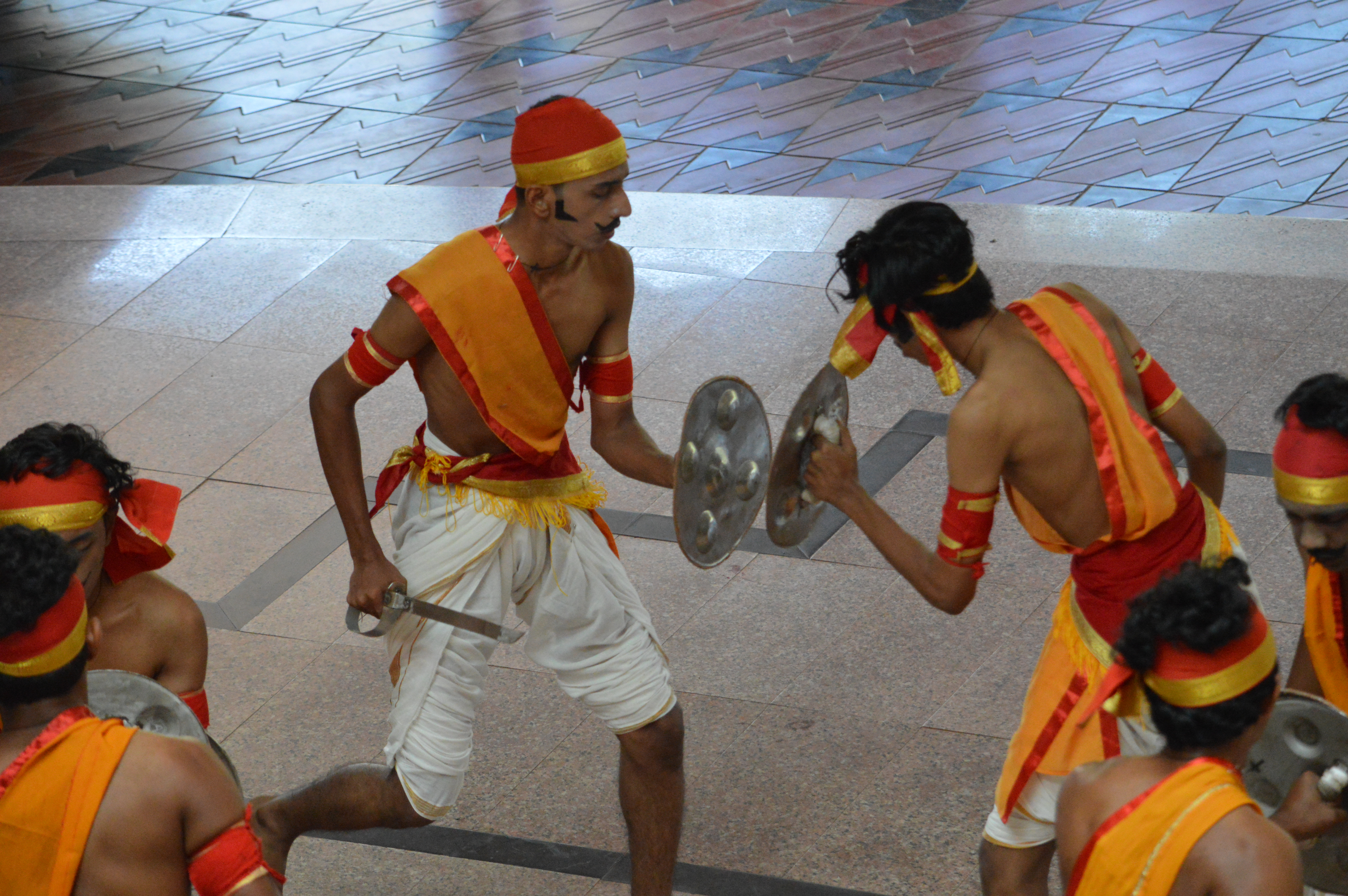 Parichamuttukali performed by college students as part of arts & cultural fest